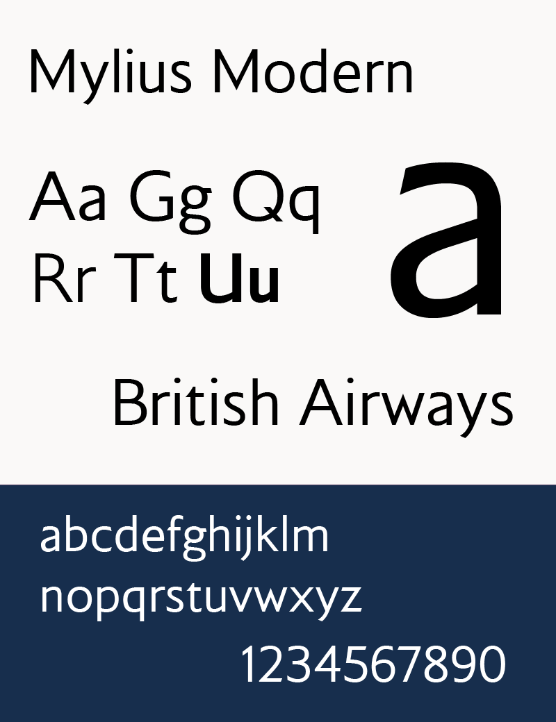 Sample of Mylius Modern (typeface used by British Airways)